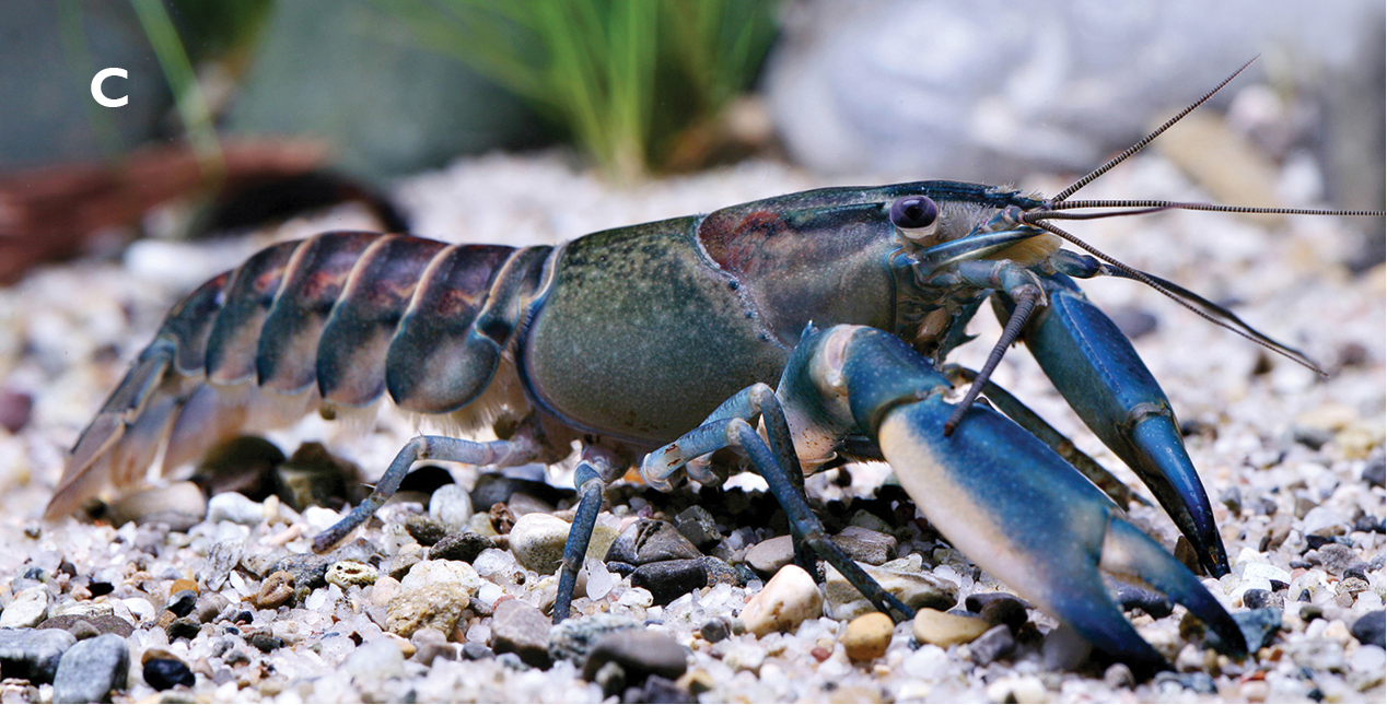 Cherax (Astaconephrops) pulcher sp. n. female from aquarium import (not listed in material examined) from Indonesia.